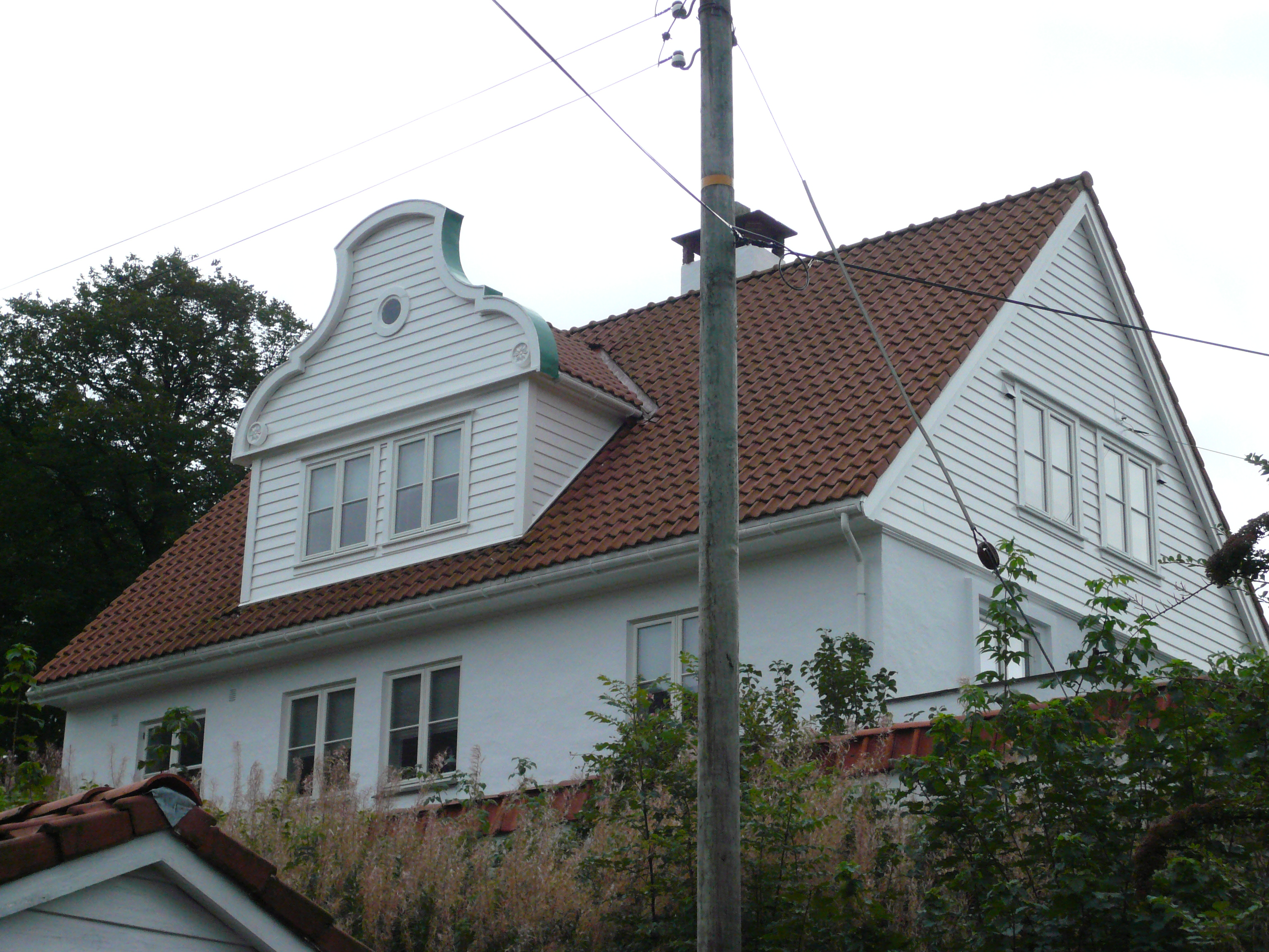 Architect Ole Landmark, Villa in Ole Landmarks vei 1, Bergen, Norway, 1955-56